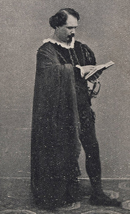 Amleto-1871-Mario Tiberini as Hamlet